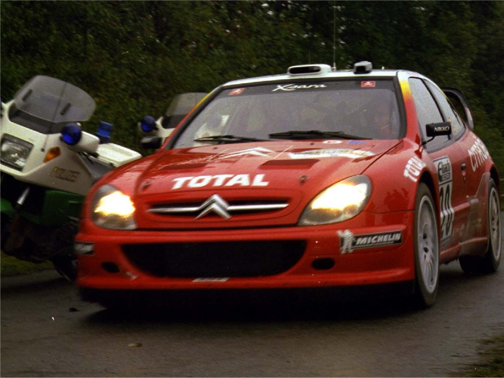 Jesús Puras in Citroën Xsara WRC at the test stage of ADAC Rally Deutschland 2002.